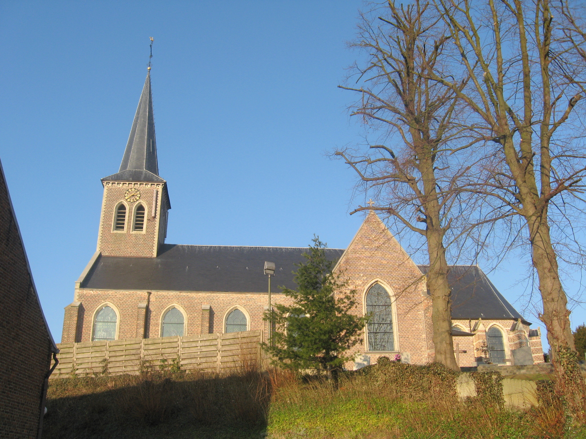 Church of Our Lady in Tielt, Tielt-Winge, Flemish Brabant, Belgium